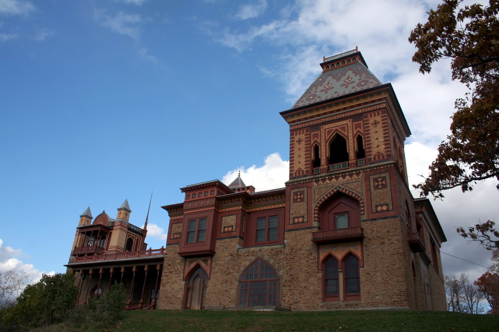 Olana Mansion, Hudson, New York, USA